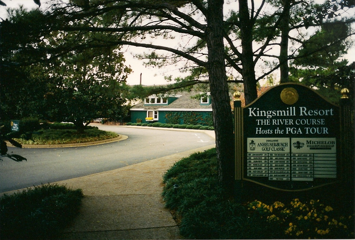 Sign in front of Kingsmill Golf Club, at the Kingsmill Resort & Spa in Williamsburg, Virginia, showing the winners of the PGA Tour event held there.